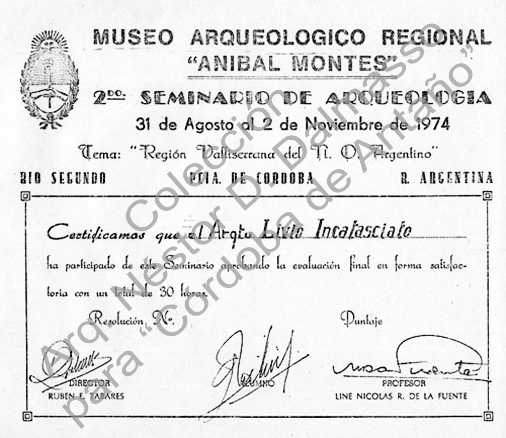 Livio Incatasciato 03 Seminanio Anibal Montes Museum 1974